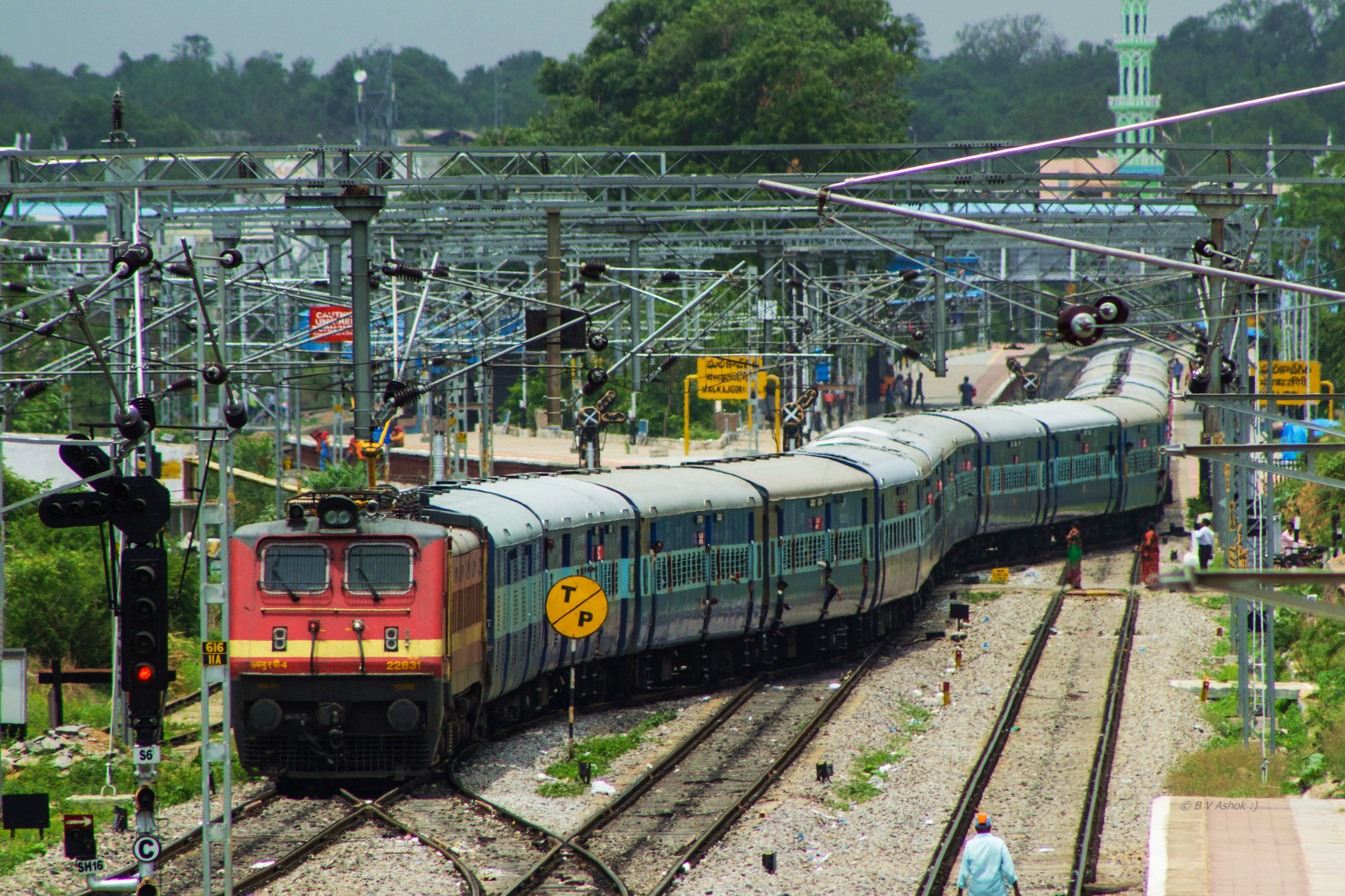 BSL WAP-4 22831 switching tracks at Malkajgiri to join Kazipet line with 12647 Coimbatore - Hazrat Nizamuddin Kongu Superfast Express in tow...